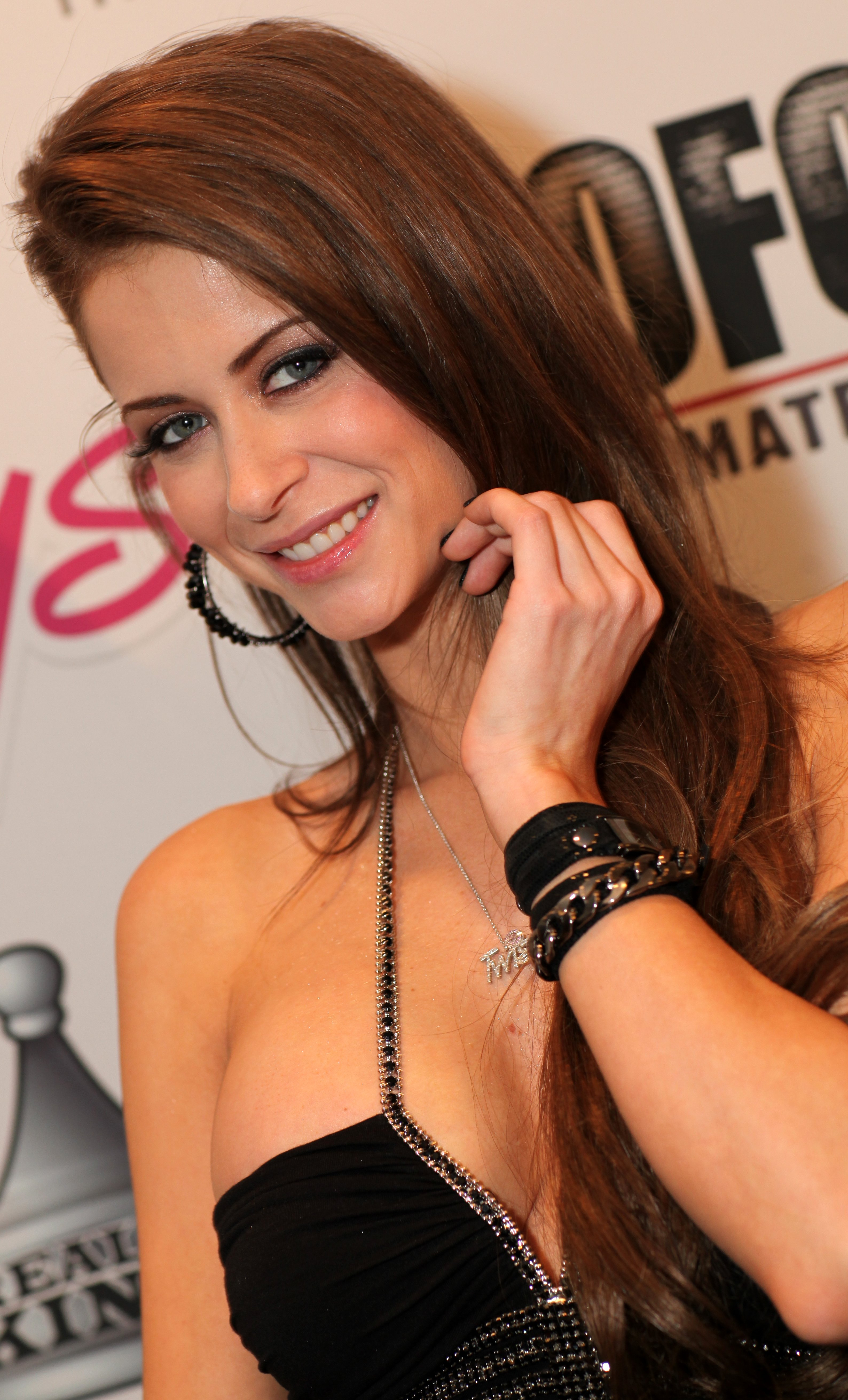 Emily Addison AVN Adult Entertainment Expo 2013